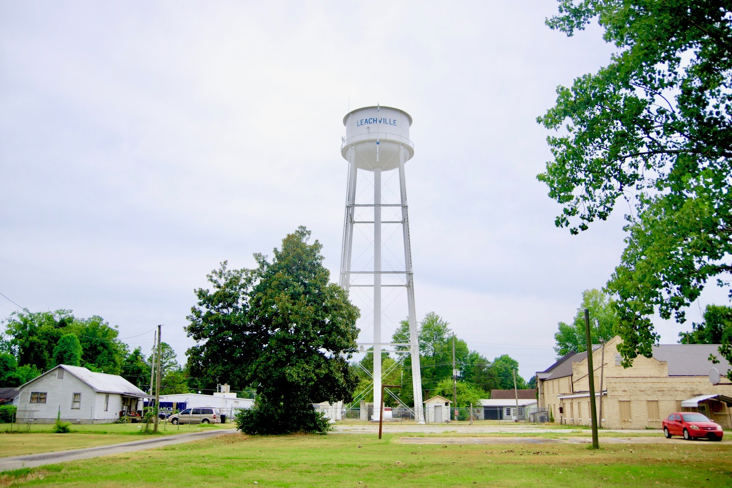 Water tower in Leachville, Arkansas, United States.